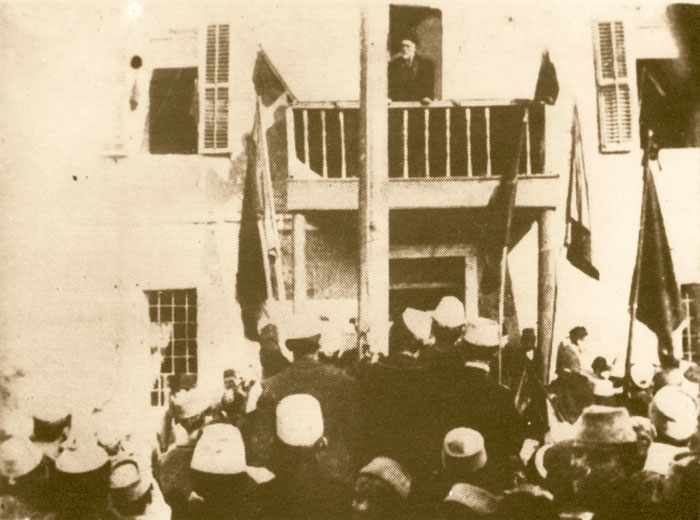 Ismail Kemal bey Vlora speaking in Vlora 1912